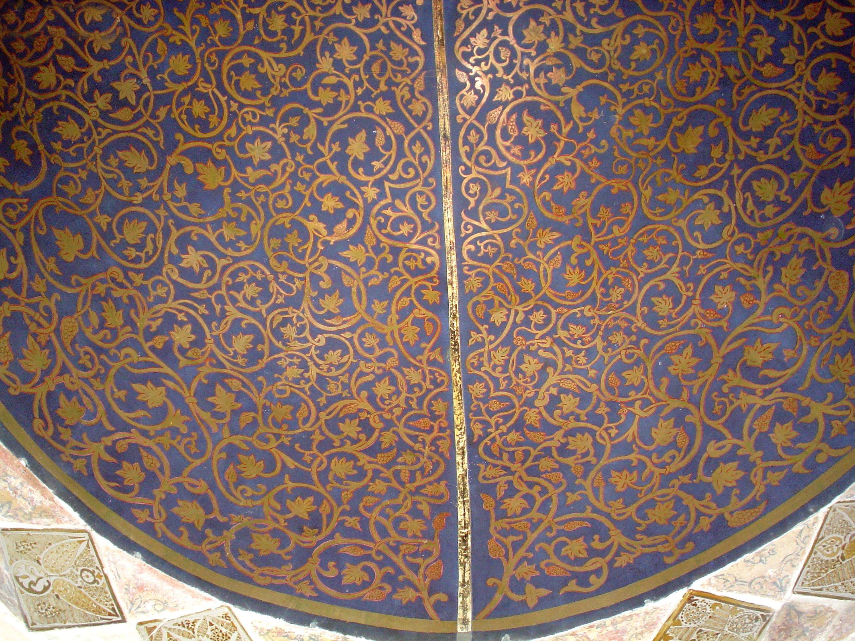 Oqba Ibn Nafi Mosque, Kairouan, Tunisia.